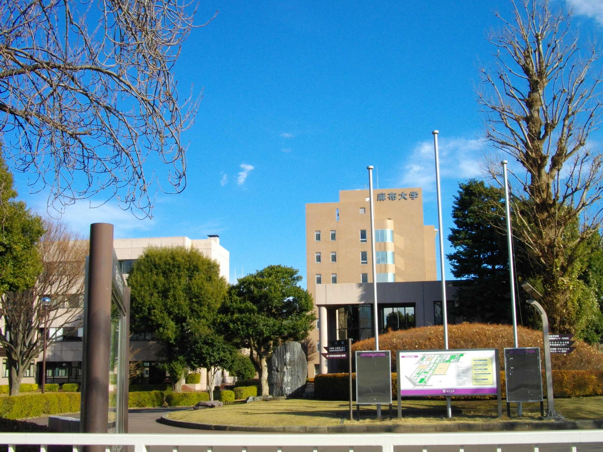 Azabu University